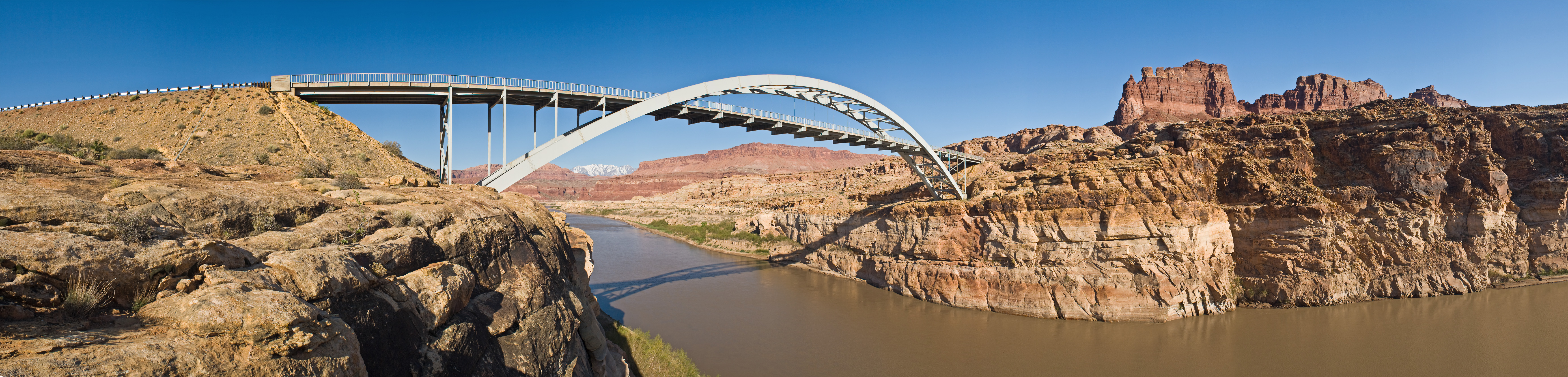 The Colorado River bridge on the Utah State Route 95 at Hite, Utah. Panorama stitched from 10 portrait format images. The camera was rotated using a Nodal Ninja [3] nodal point adapter which was mounted on a tripod. All photos were taken with the same exposure settings in RAW format and developed with exactly the same settings in a RAW converter. For stitching PTGUI [4] was used.